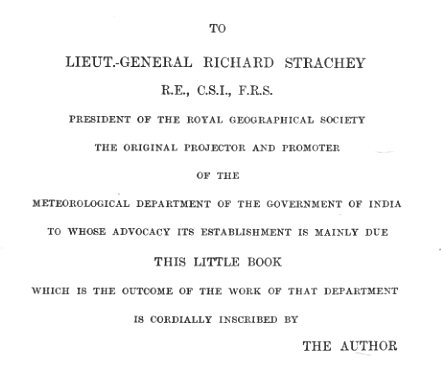 Dedication to Richard Strachey